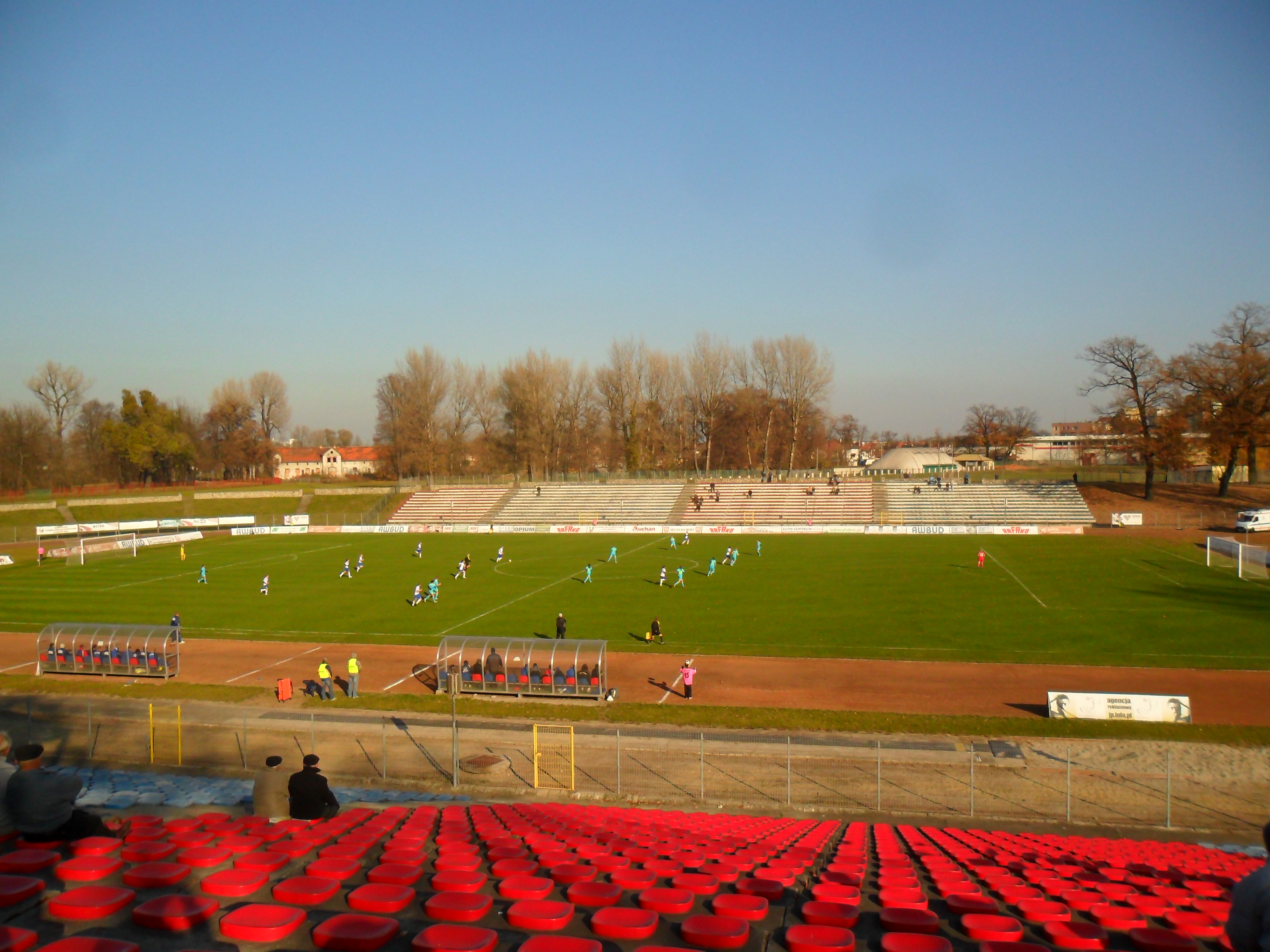 Polish Women's Ekstraliga match between RTP Unia Racibórz and AZS Wrocław on OSiR Stadium in Racibórz won 1:0 by RTP Unia Racibórz (11.11.2011)